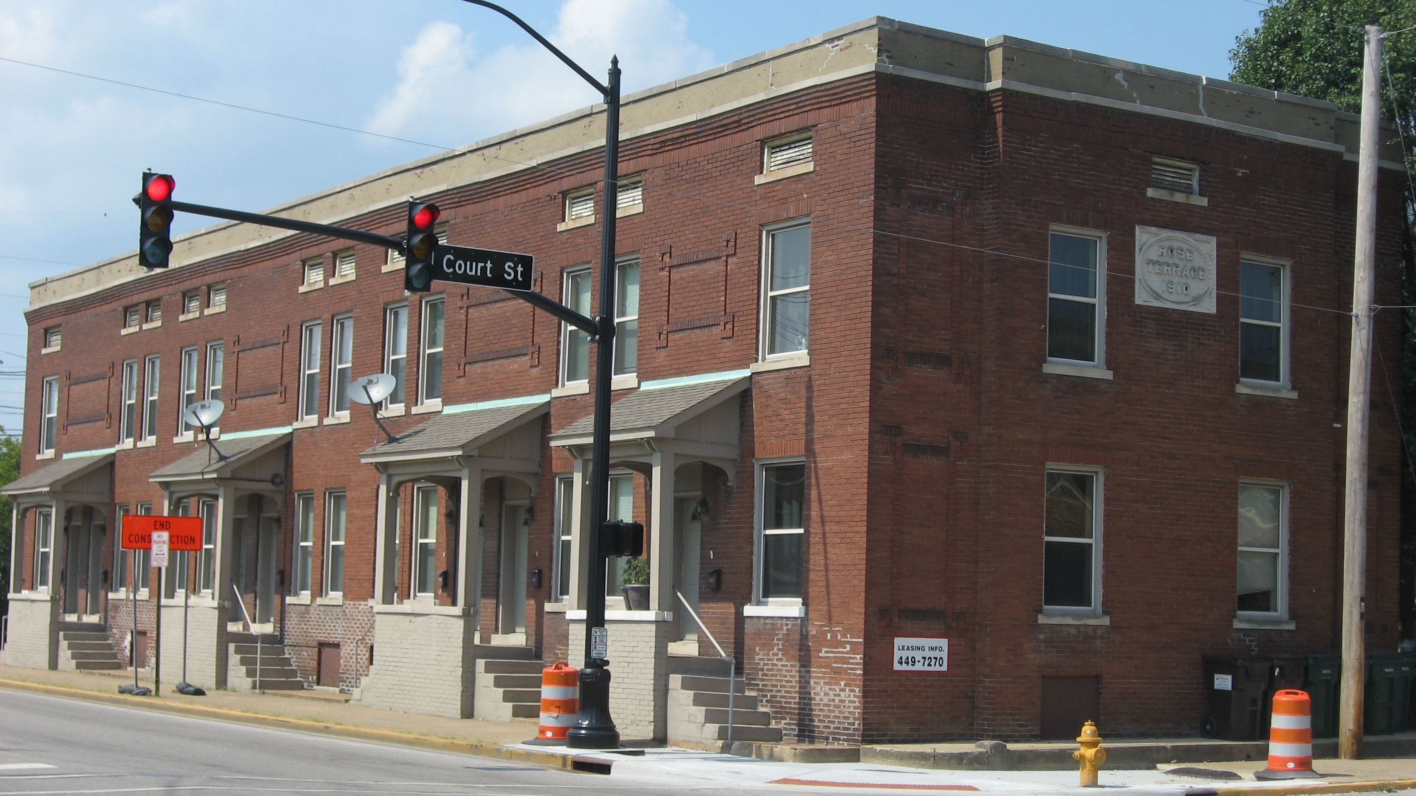 Front and southeastern side of Rose Terrace, located at 301-313 NW. Seventh Street in Evansville, Indiana, United States. Built in 1910, it is listed on the National Register of Historic Places.